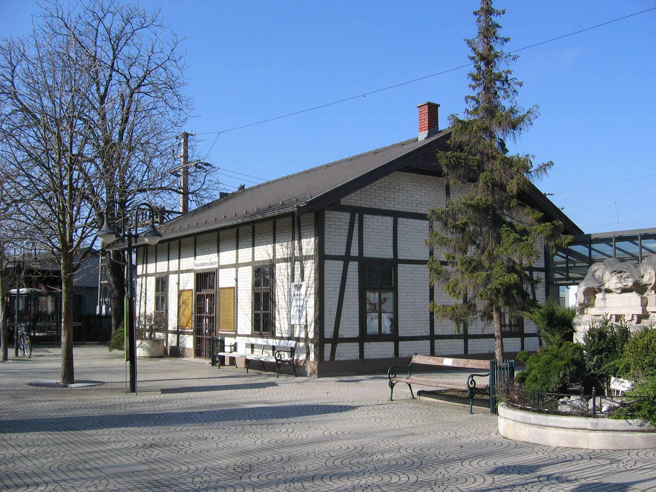 Railway Museum Wagram